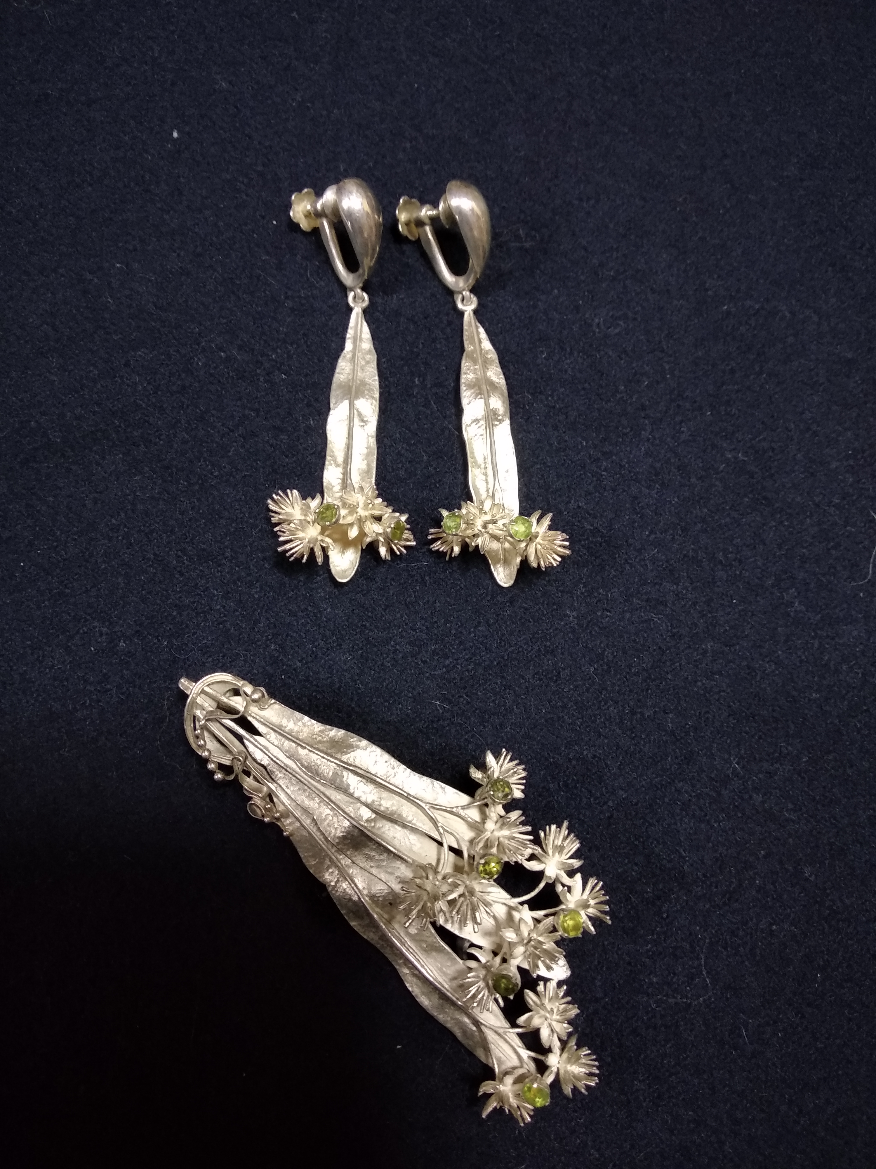 Set "Flowers of linden"